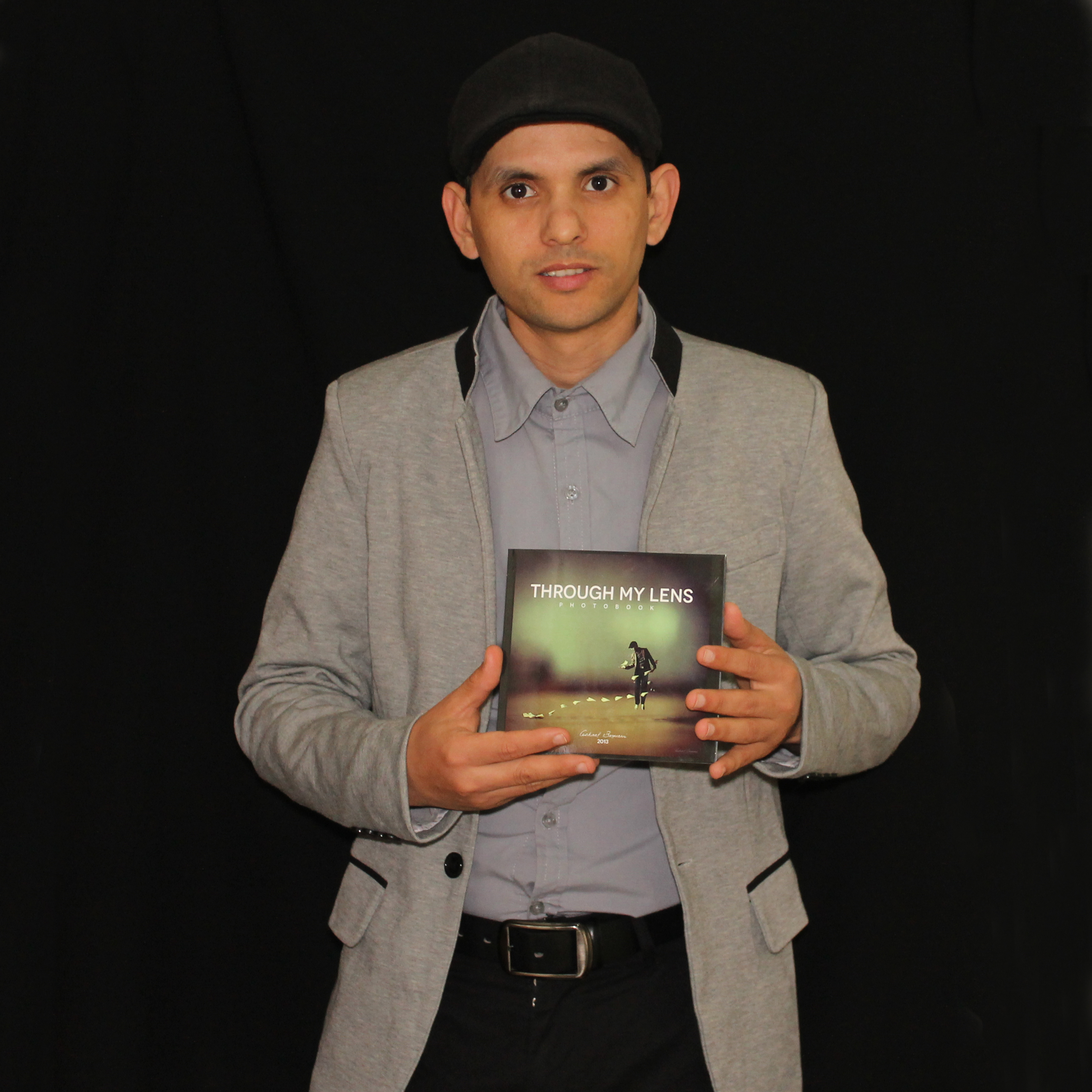 Photo portait of Achraf